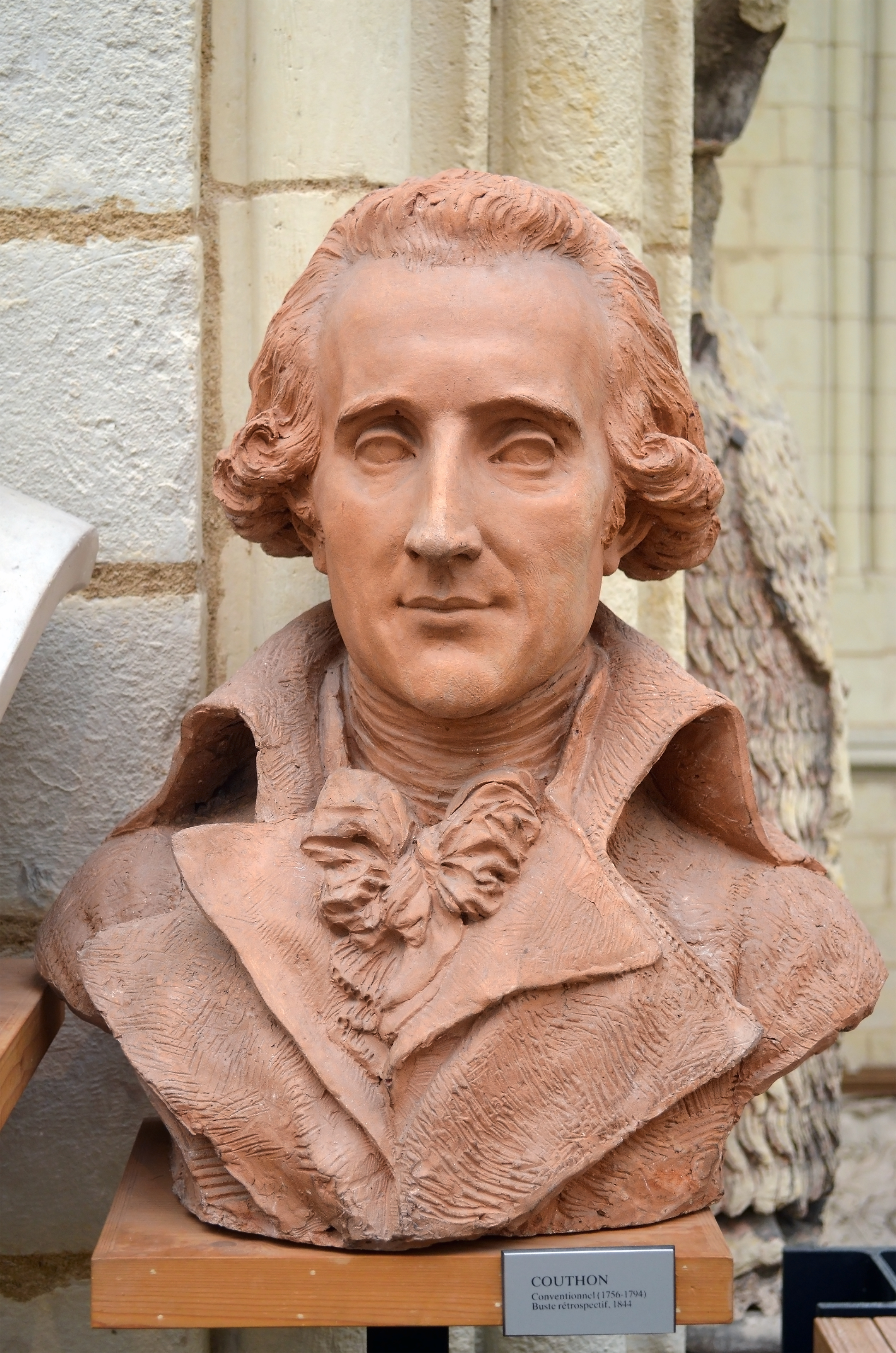 Bust of Georges Couthon by french sculptor David d'Angers (1844). Exhibited in David d'Angers gallery, Angers, France